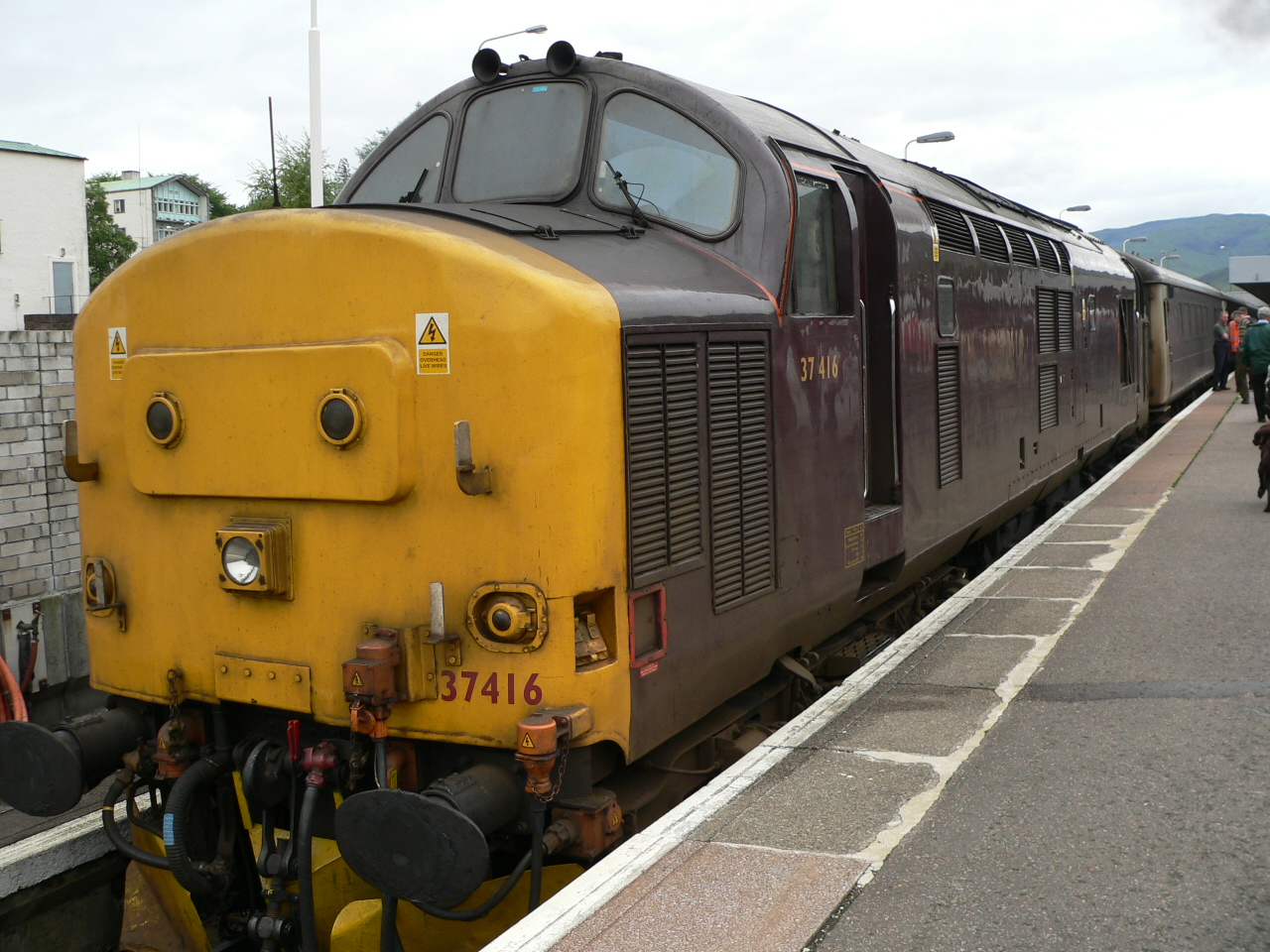 The very unhealthy sounding EWS Class 37 diesel locomotive 37416 at Fort William railway station. The loco had apparently failed half-a-dozen times en route from Edinburgh with the Caledonian Sleeper service (the Euston to Edinburgh portion being worked by an electric locomotive), arriving into Fort William, Scotland several hours late, and causing a significant delay to the return leg of The Jacobite steam service from Mallaig. Several passengers even suggested that they should have used the steam locomotive to rescue the diesel!